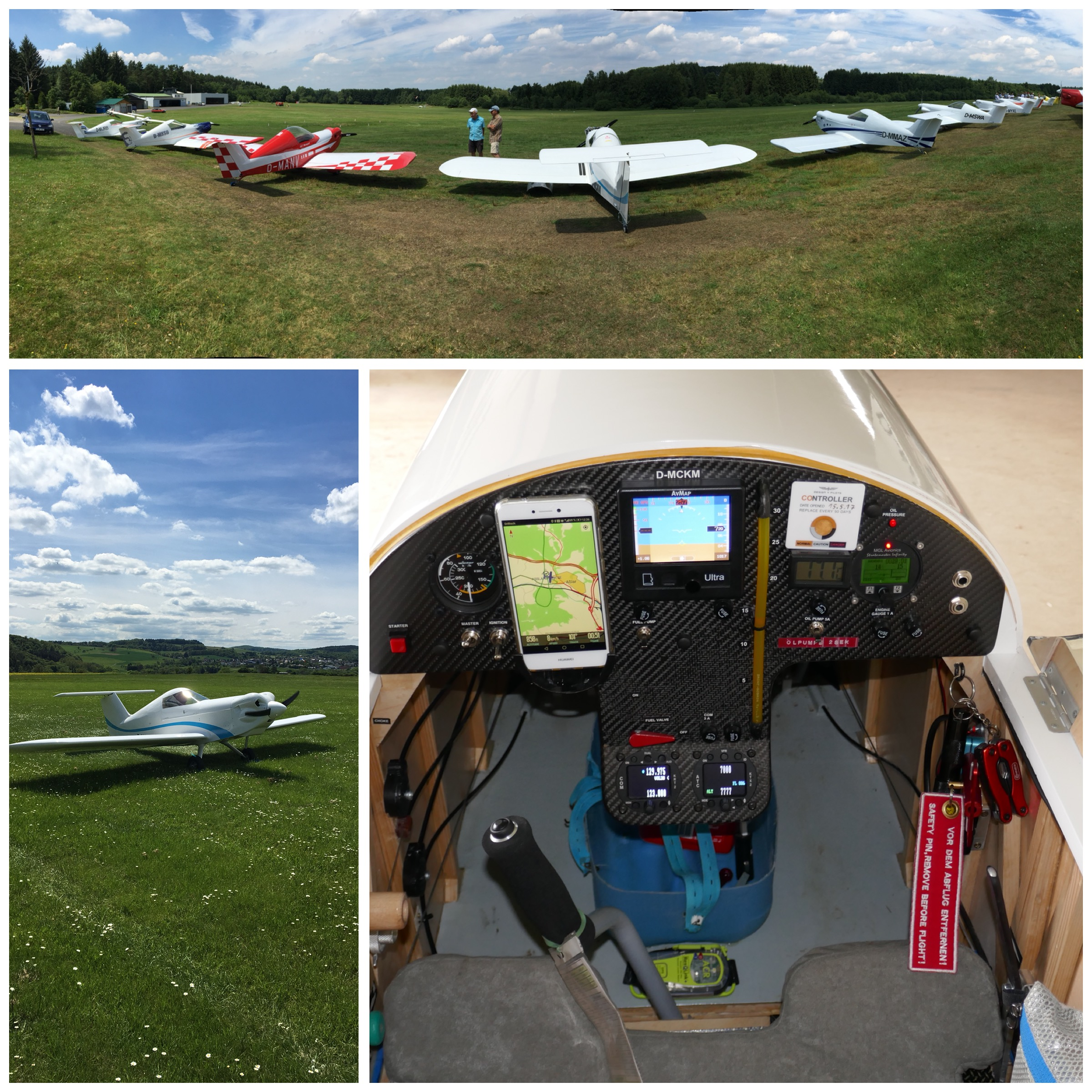 Top: SD-1 meeting Hünsborn 2017. Bottom: 120 kg version with digitized, modern light navigation and engine monitoring systems. Only tank indicator and speedometer analog. PLB (necessary for Austria) as well as light overall rescue system Galaxy GRS.